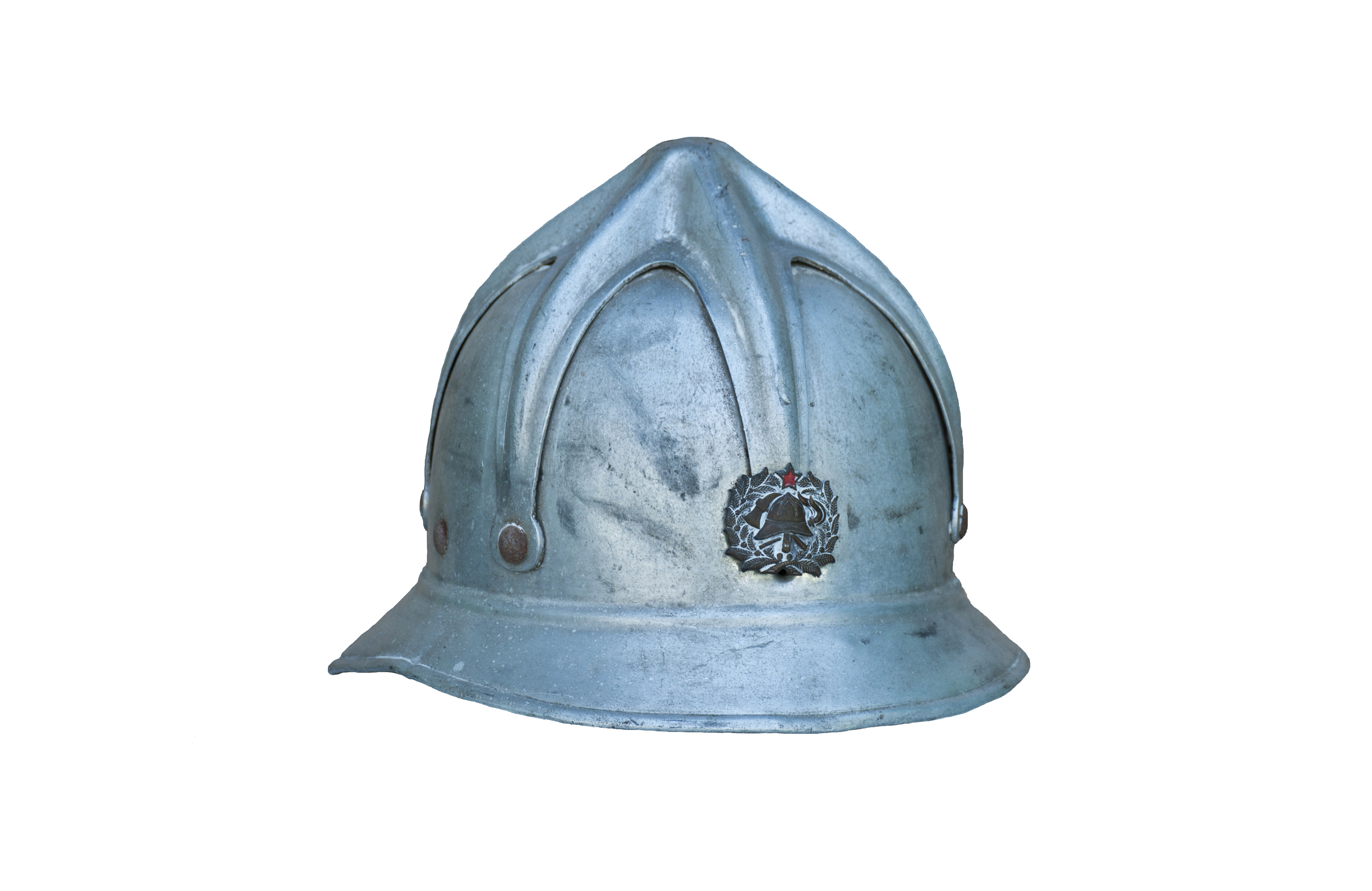 Fire-resistant working helmet made of pressed aluminum. On the surface of the helmet, there is a four-pointed iron edge that is in the middle elevated. Forward there is a firearm coat wrapped in ears with a red five-headed above. About 1950